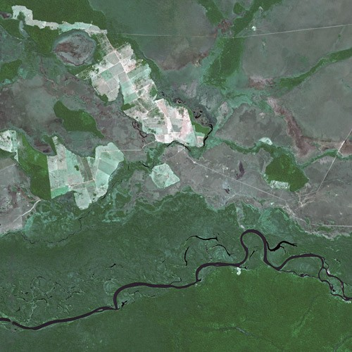 Noel Kempff Mercado National Park by SPOT Satellite